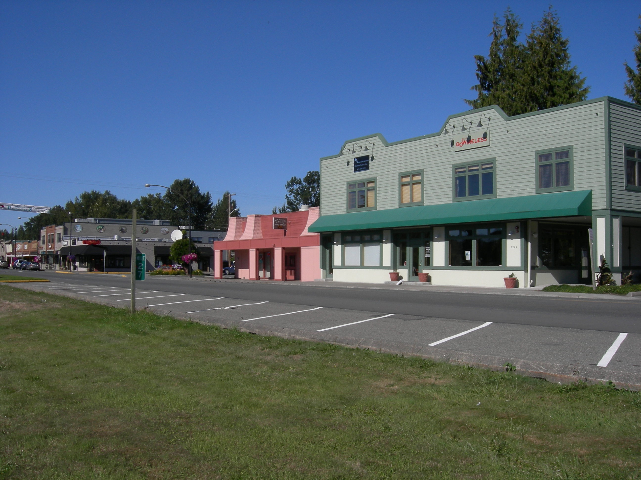 Shops in Snoqualmie, Washington, USA.